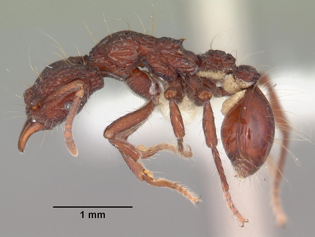 Profile view of ant Dacetinops concinnus specimen casent0010799.